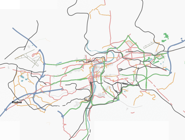 OpenStreetMap cut-out (or derivative work based on it): without further description This cut-out may be incomplete, and may contain errors, or may be obsolete. Don't rely solely on it for navigation. See the image in the present state and its original context on the OpenStreetMap wiki page for osm-200607-praha